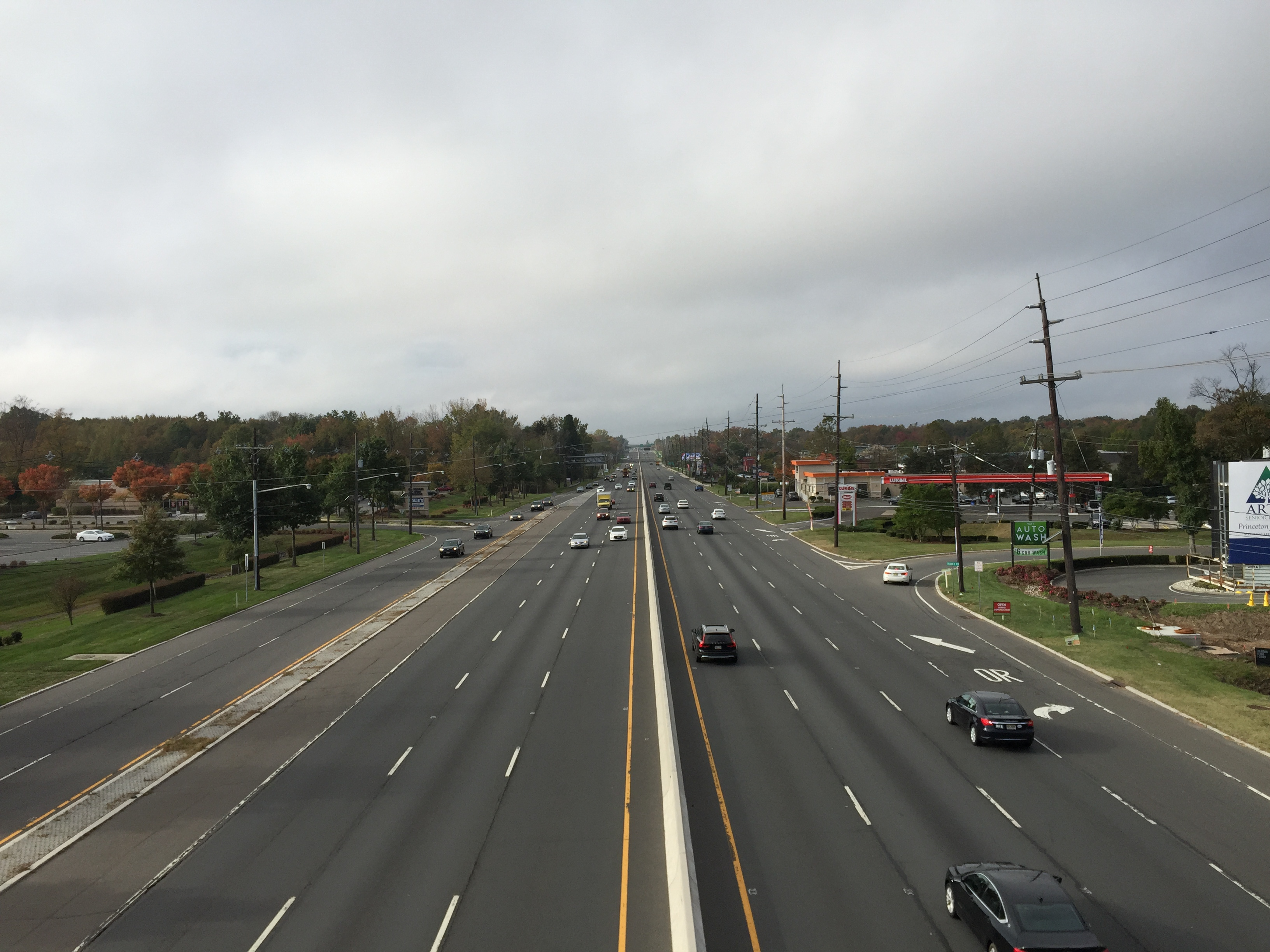 View south along U.S. Route 1 (Brunswick Pike) from the Meadow Road overpass in West Windsor Township, Mercer County, New Jersey